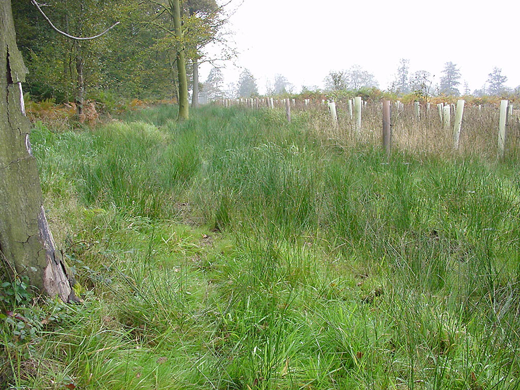 Forest of Rihoult-Clairmarais, near Saint Omer, North of France.